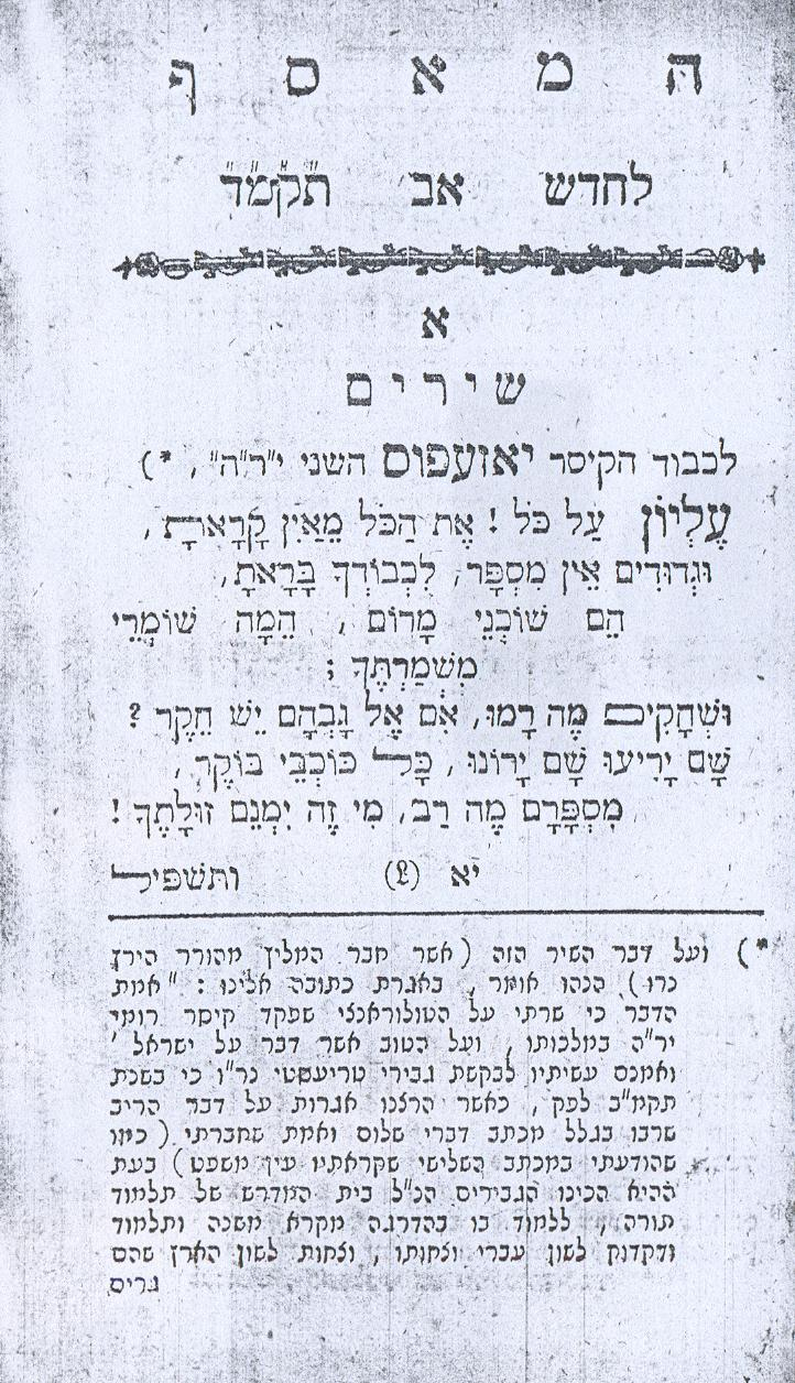 Front page of "HaMeassef", Hebrew periodical published in Berlin, Issue of Av (approx. August) 1784.